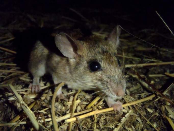 Praomys daltoni in Mauritania, north east Assaba mountains near Oued El Ouadhahane, on the eastern slopes of the Tarf el Mgueissem (Mauritania).